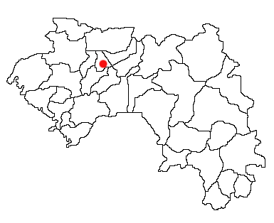 Labé, Guinea Location Map; created with the GIMP. Made by User:Acntx.